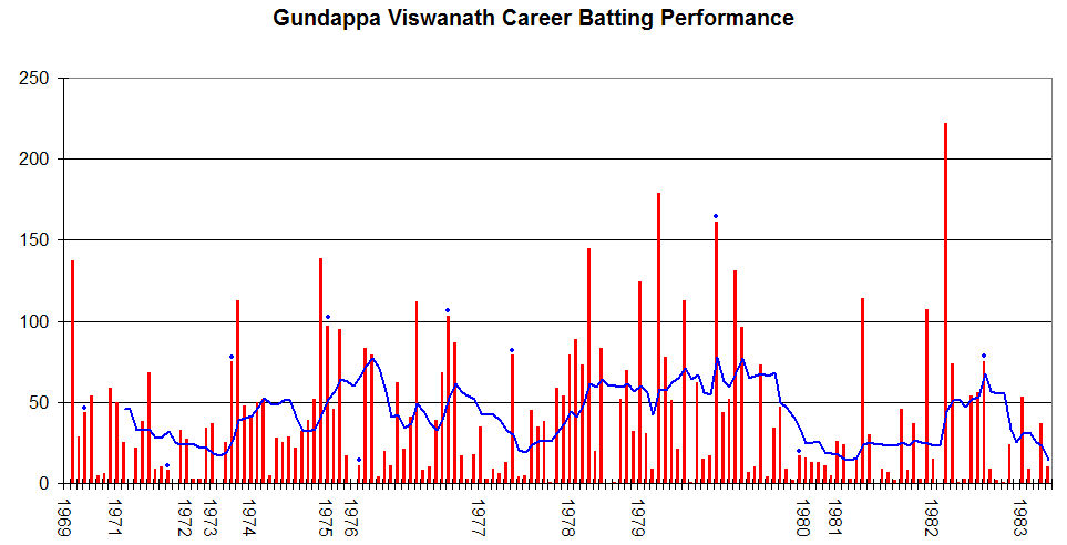 This graph details the Test Match performance of Gundappa Viswanath. It was created by Raven4x4x. The red bars indicate the player's test match innings, while the blue line shows the average of the ten most recent innings at that point. Note that this average cannot be calculated for the first nine innings. The blue dots indicate innings in which Viswanath finished not-out. This graph was generated with Microsoft Excel 2002, using data from Cricinfo and .au.